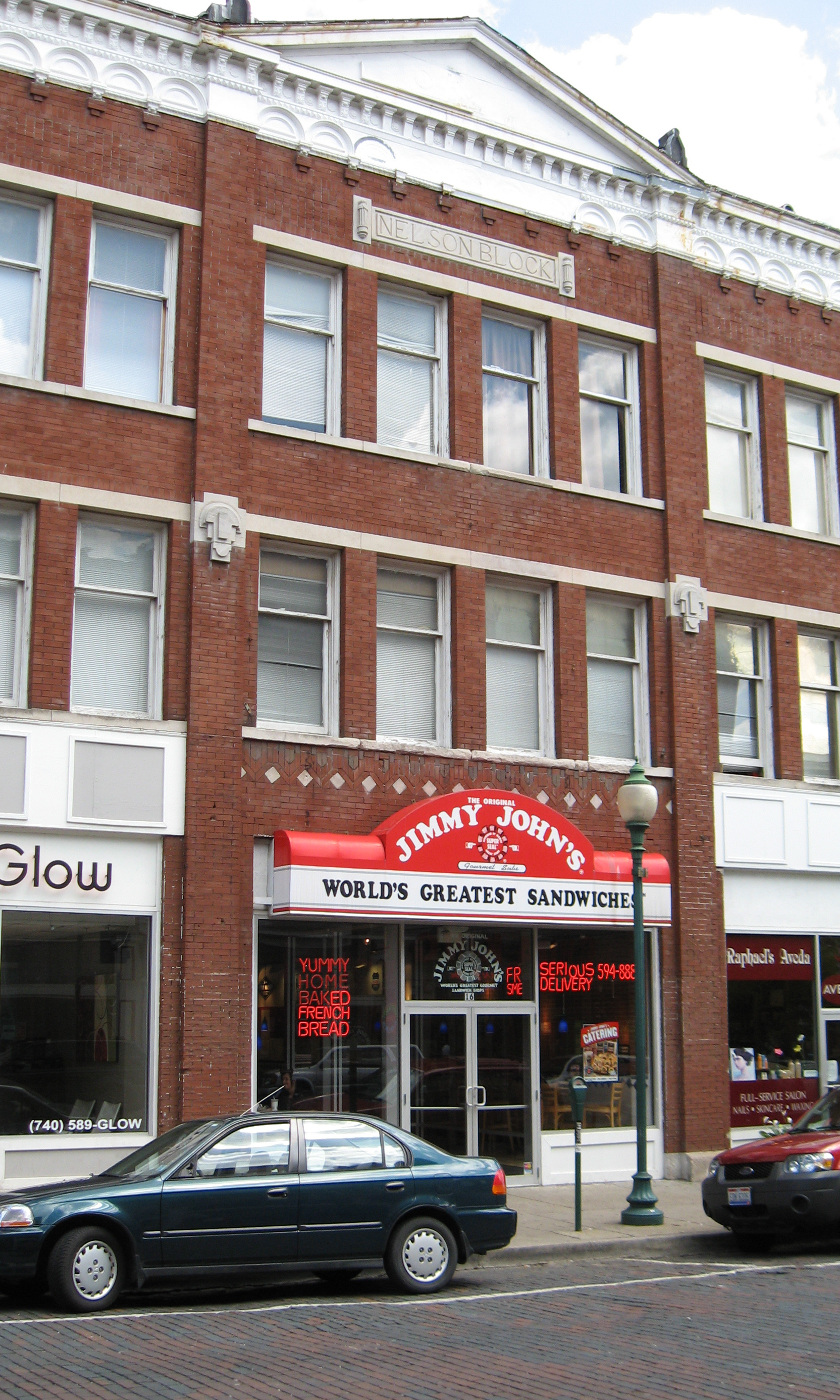 Jimmy John's Restaurant (Athens, USA)